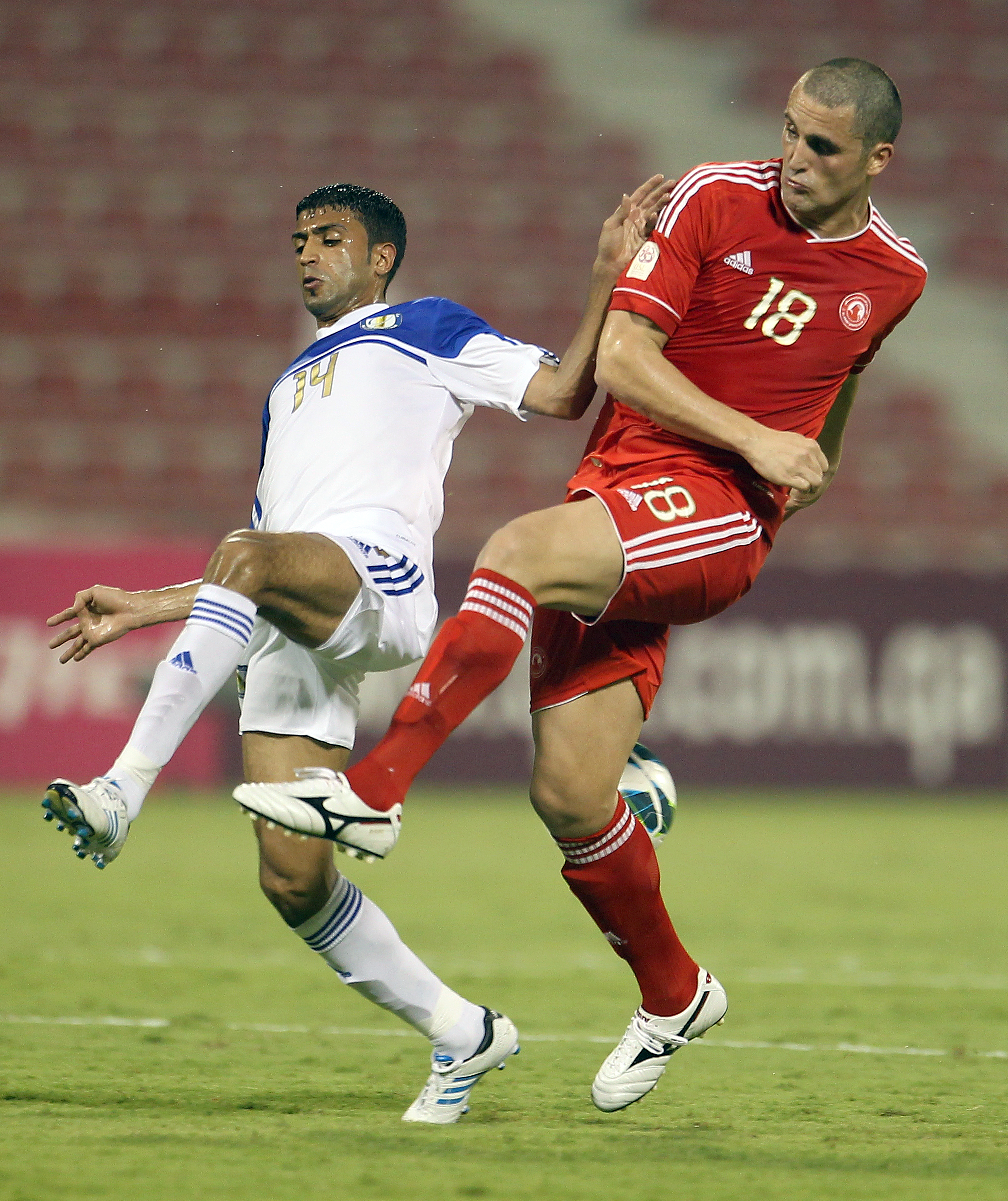 Al Arabi's Brazilian professional player Bare, right, in action during a Qatar Stars League match. Picture by Mohan